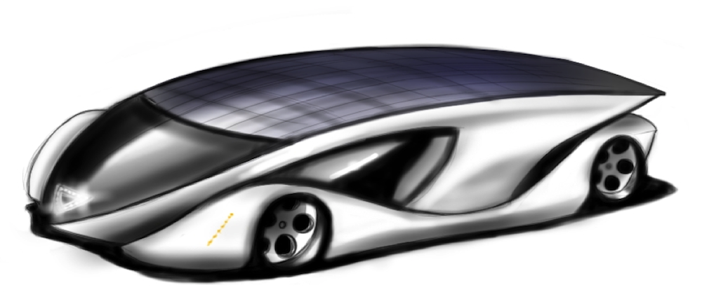 Conceptual Design Of Serve